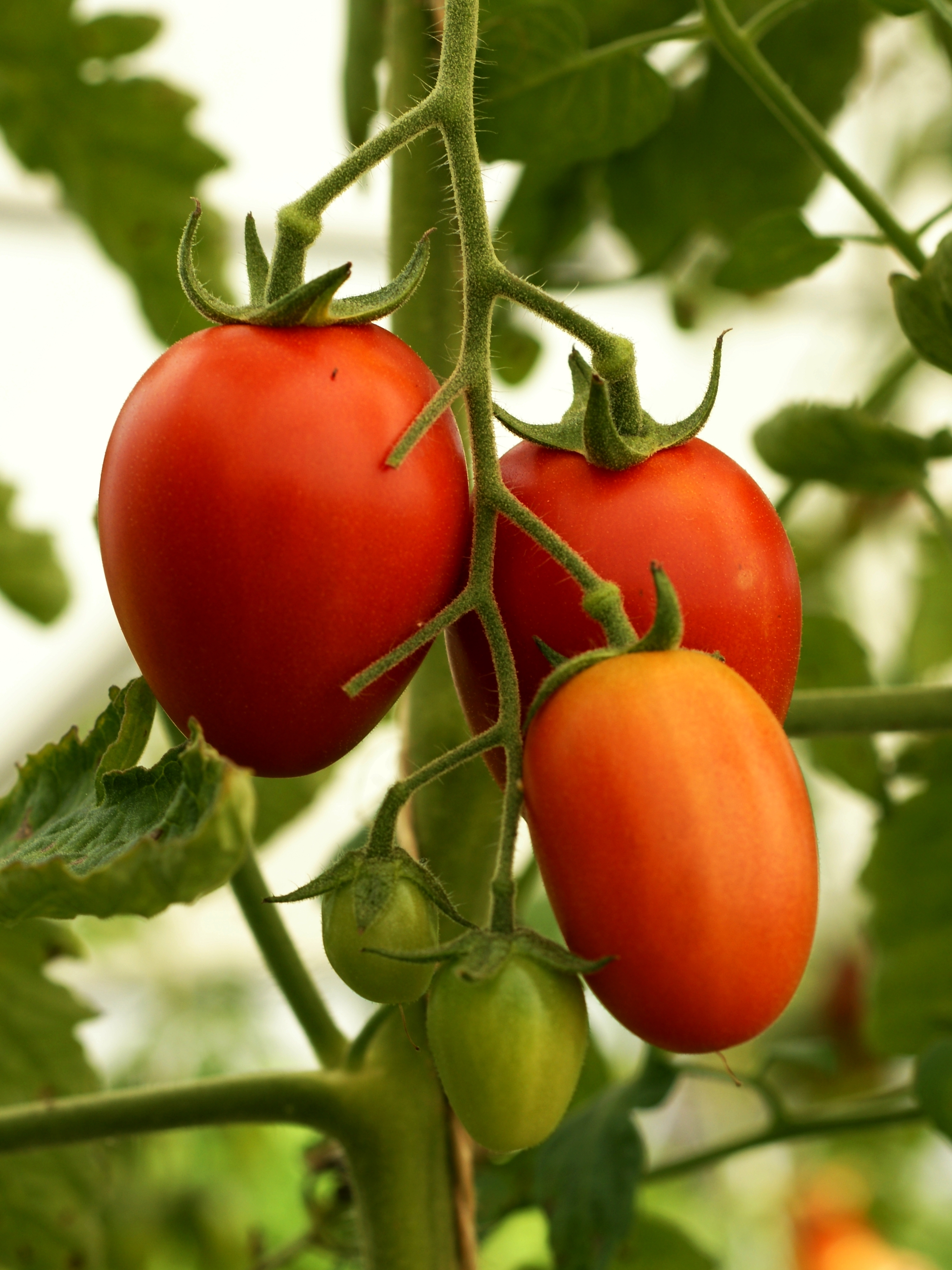 The tomato (Solanum lycopersicum, syn. Lycopersicon lycopersicum) is a herbaceous, usually sprawling plant in the Solanaceae or nightshade family, as are its close cousins tobacco, chili peppers, potato, and eggplant.